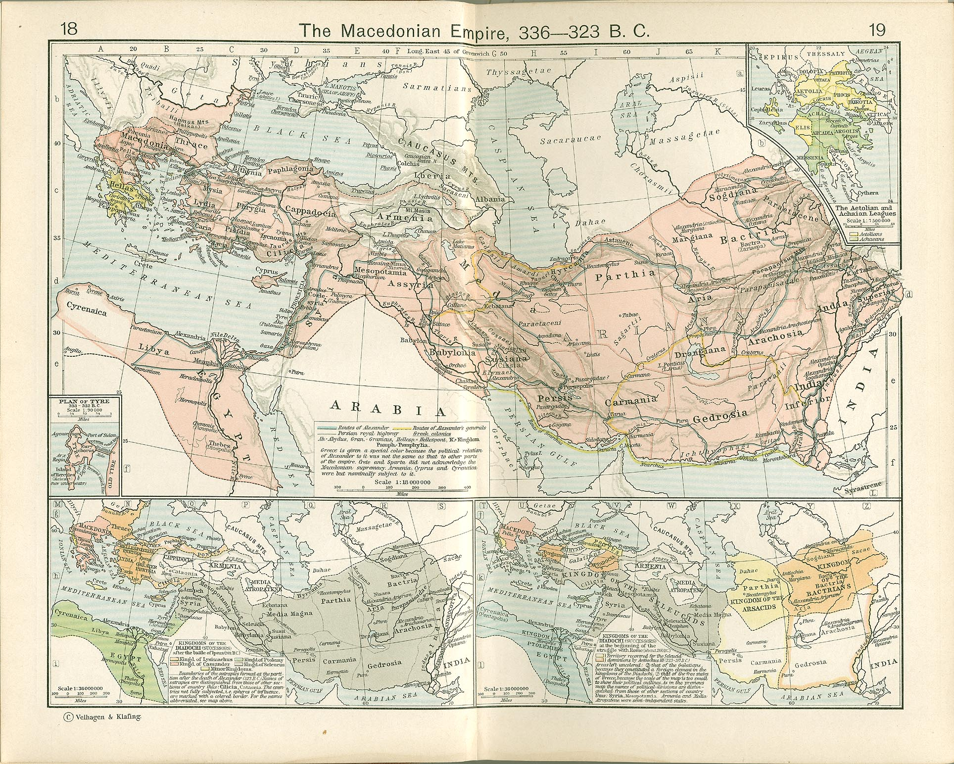 The Macedonian Empire, 336-323 B.C. AND Kingdoms of the Diadochi in 301 BC and 200 BC. Historical Atlas by William R. Shepherd, 1911. Courtesy of the University of Texas Libraries, The University of Texas at Austin. From The Historical Atlas by William R. Shepherd, 1911 edition